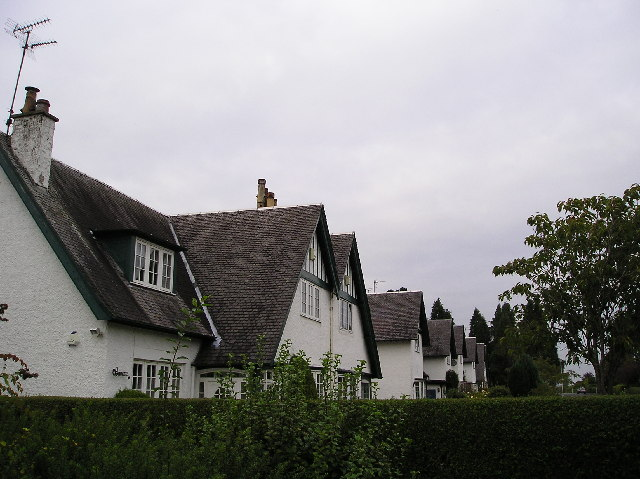 Black & White. Brookfield Village houses Renfrewshire.